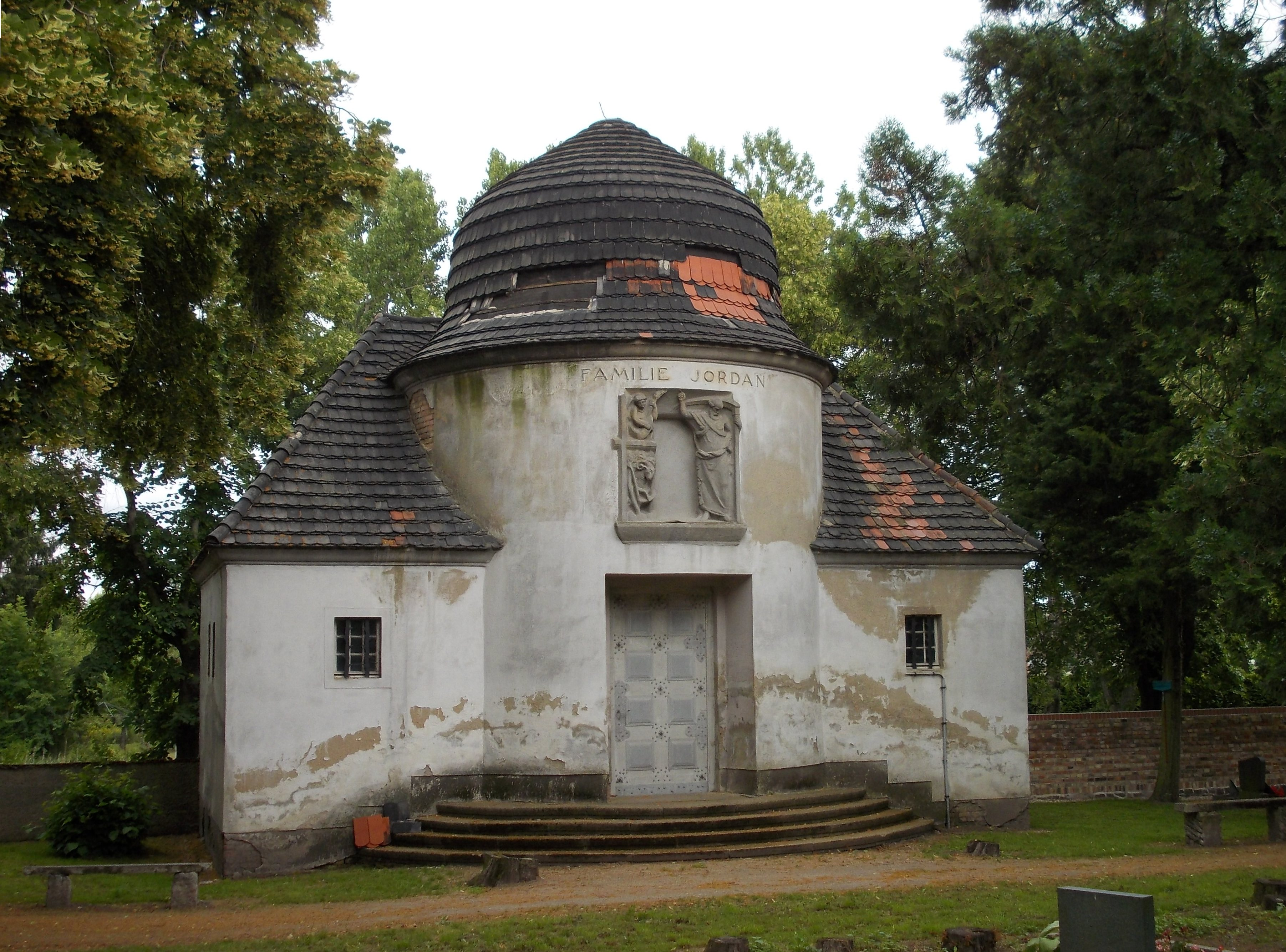 Mausoleum of the Jordan family in the churchyard of Spören (Zörbig, Anhalt-Bitterfeld district, Saxony-Anhalt)